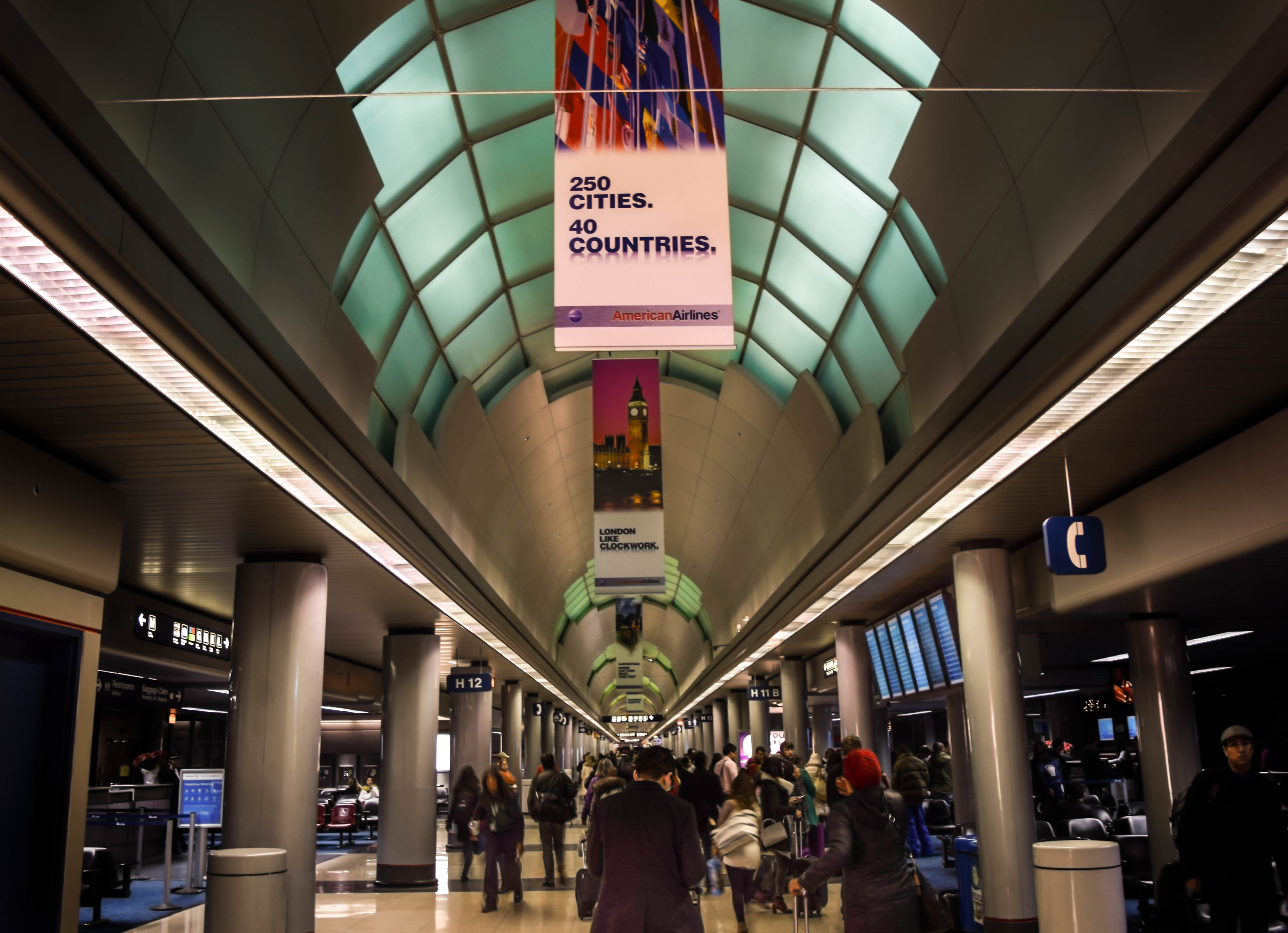 Gates 11B & 12 on Concourse H at Terminal 3 of Chicago O'Hare International Airport in Chicago, Illinois. Taken on January 1st, 2015. Taken by Matt Popovich and released under a CC-BY-3.0 license.